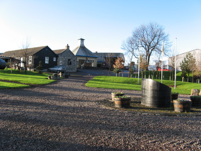 Speyside Cooperage, Craigellachie December sunshine at Speyside Cooperage. There is an excellent Visitor Centre where one can watch the Coopers at work.